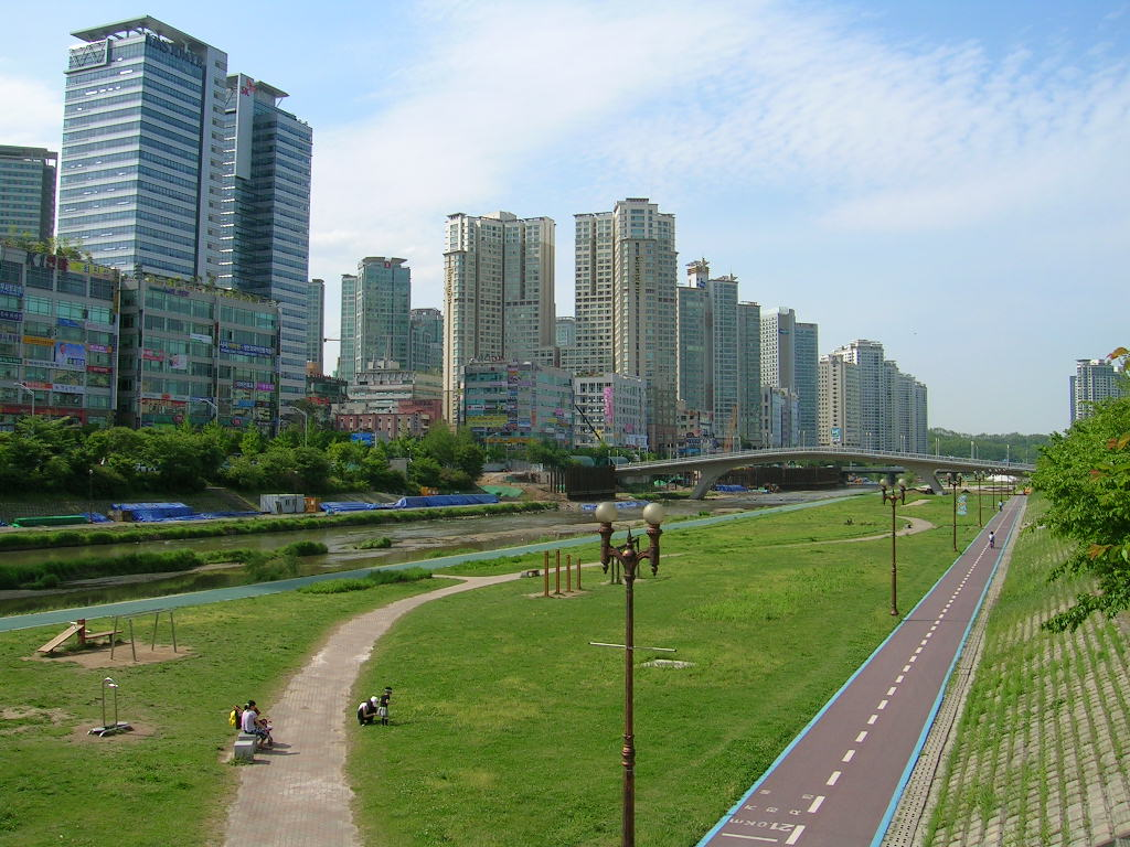 Jeong-ja-dong, Bundang, South Korea